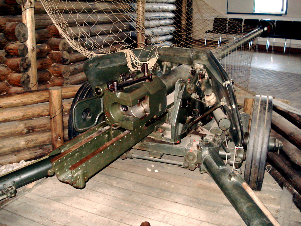 PaK 40 anti-tank gun, manufactured in Germany and used by Finland, displayed in Manege Military Museum in Suomenlinna fortress, Helsinki. Photo taken on June 10, 2006. Source: Photo by me, User:Balcer.